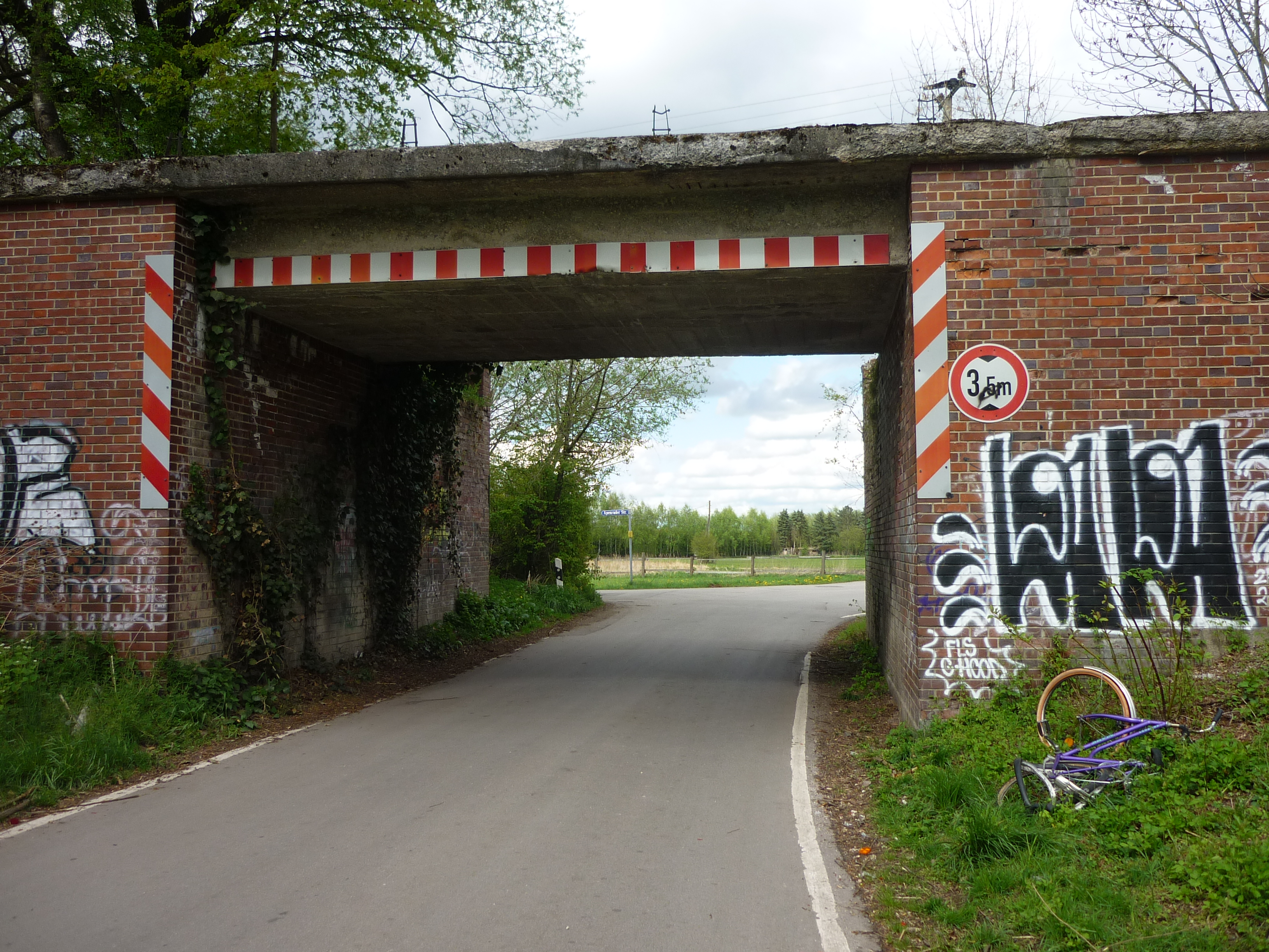 old railway bridge crossing Apenrader Strasse, Munich, Germany